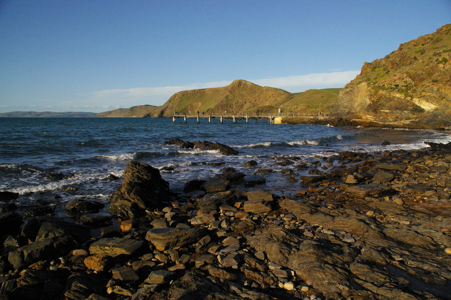 took it myself